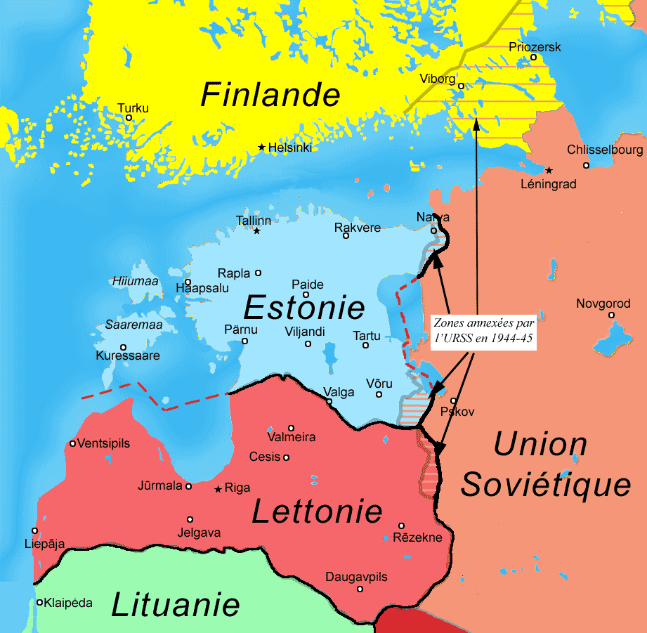 Map of Estonia et Latvia : first independance 1918-1940